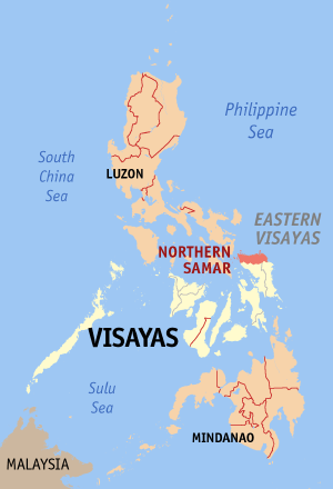 Map of the Philippines showing the location of Northern Samar